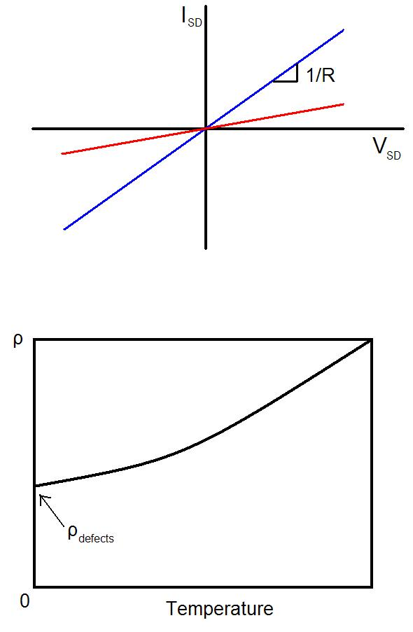 Figure 3